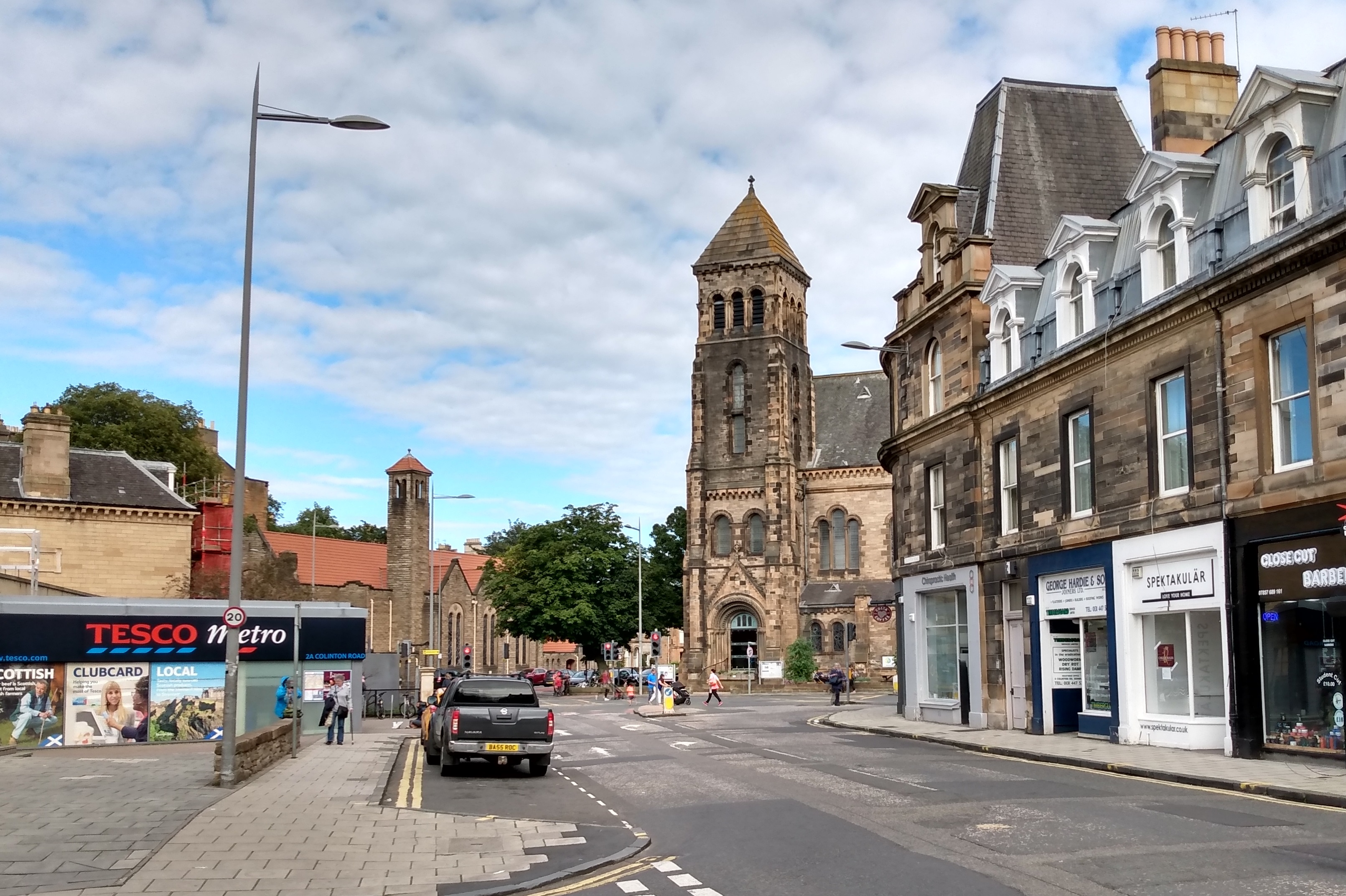 View looking north from Napier University towards Morningside Road.